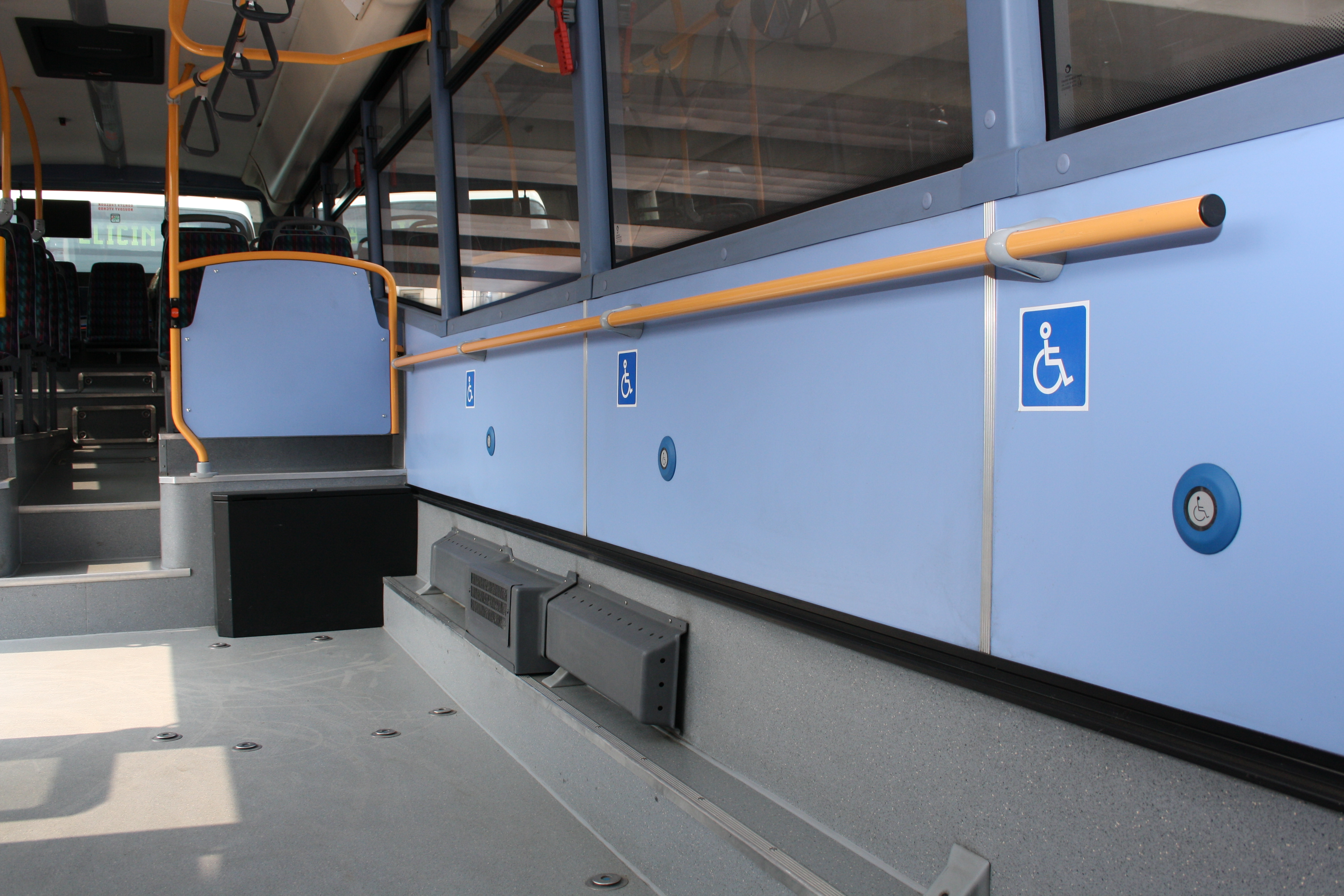 Irisbus Crossway LE od Dopravní podnik Prague in station Florenc on special bus lines for handicapped